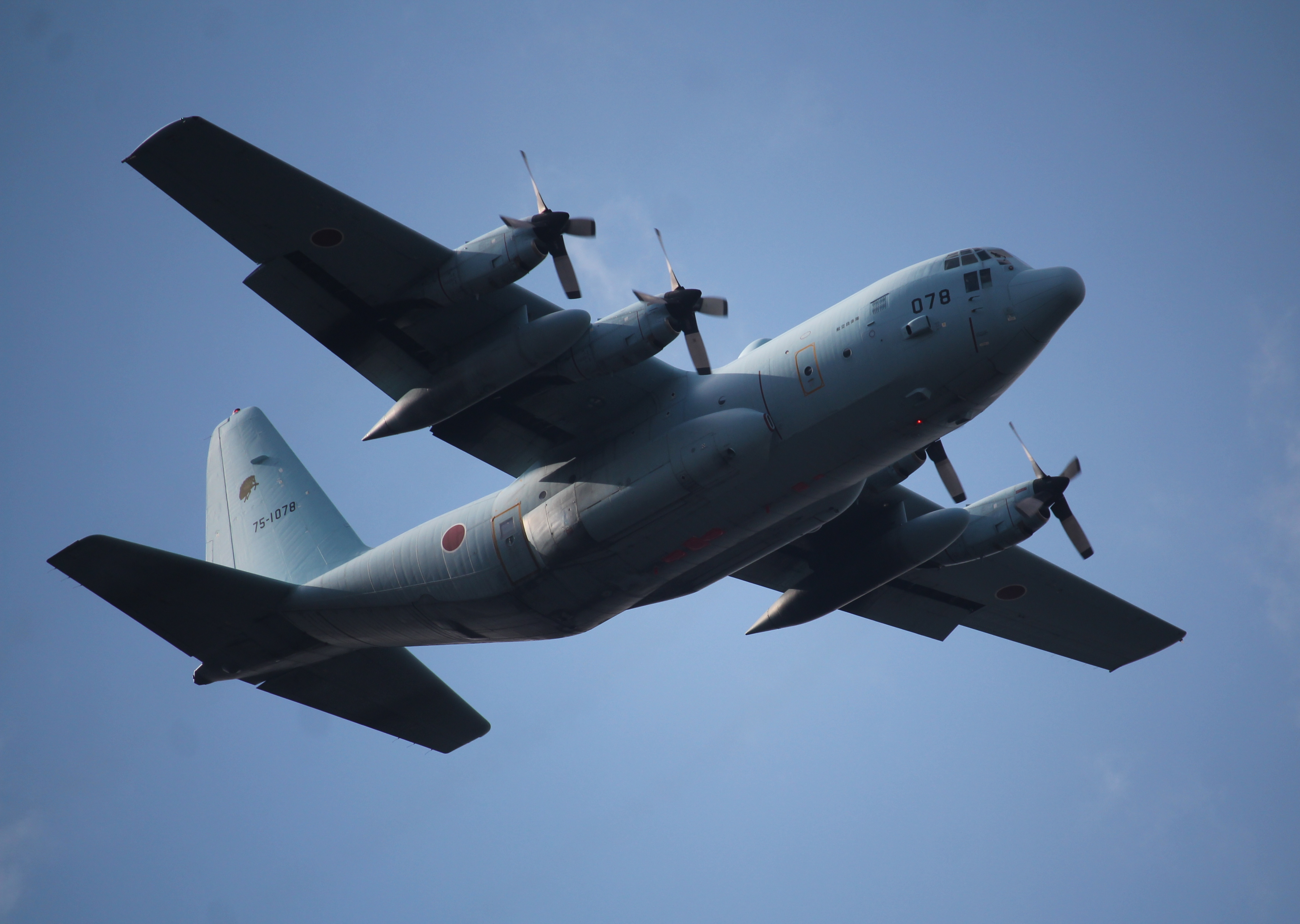 Lockheed C-130 Hercules of Japan Air Self-Defense Force in flight